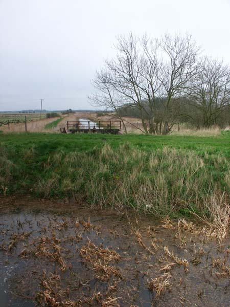 Leven Lock, East Riding of Yorkshire, England.As seen from the River Hull (Michael Askin)